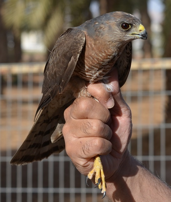 Levant Sparrowhawk, male.